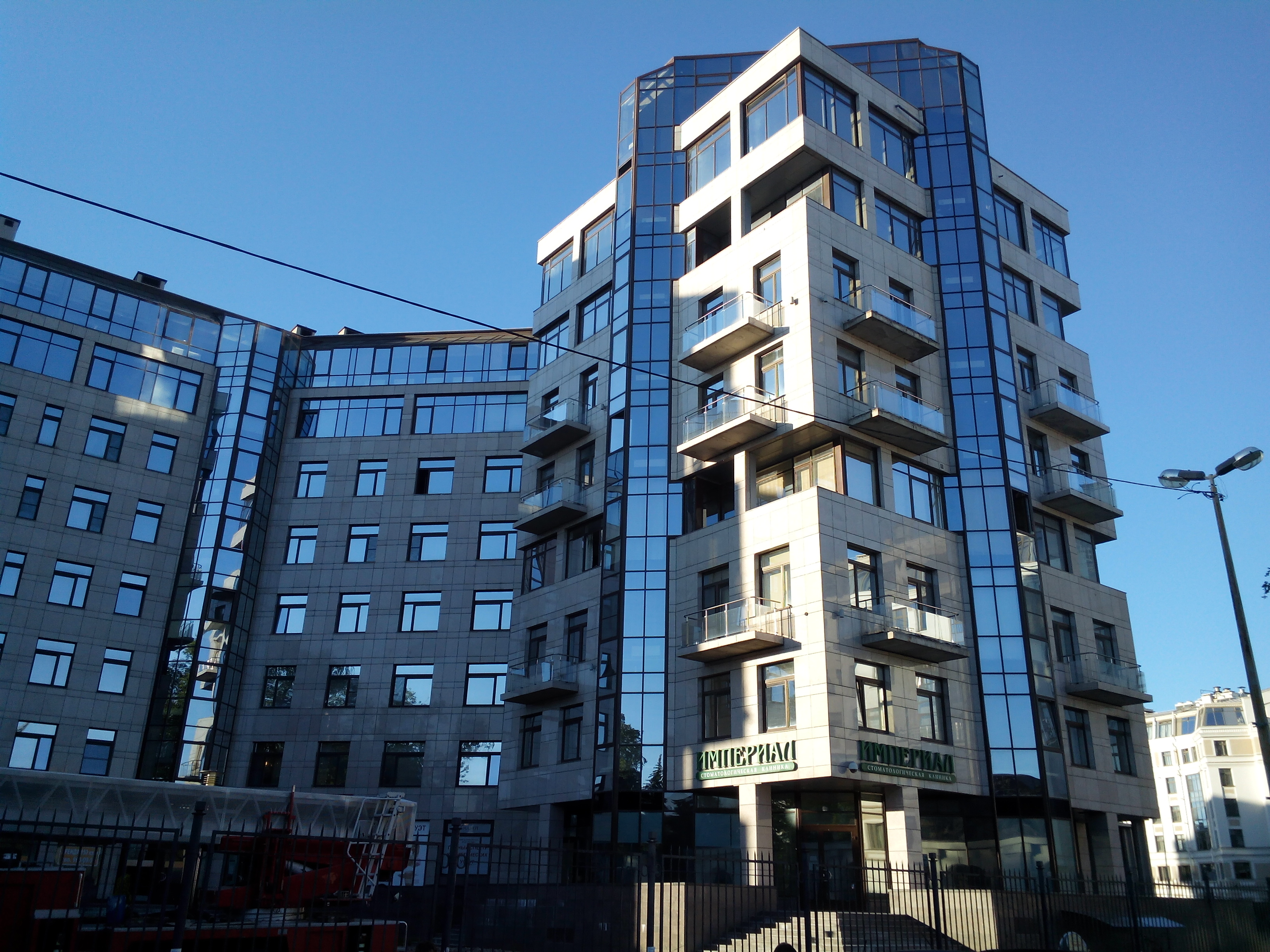 Petrogradsky District, St Petersburg, Russia